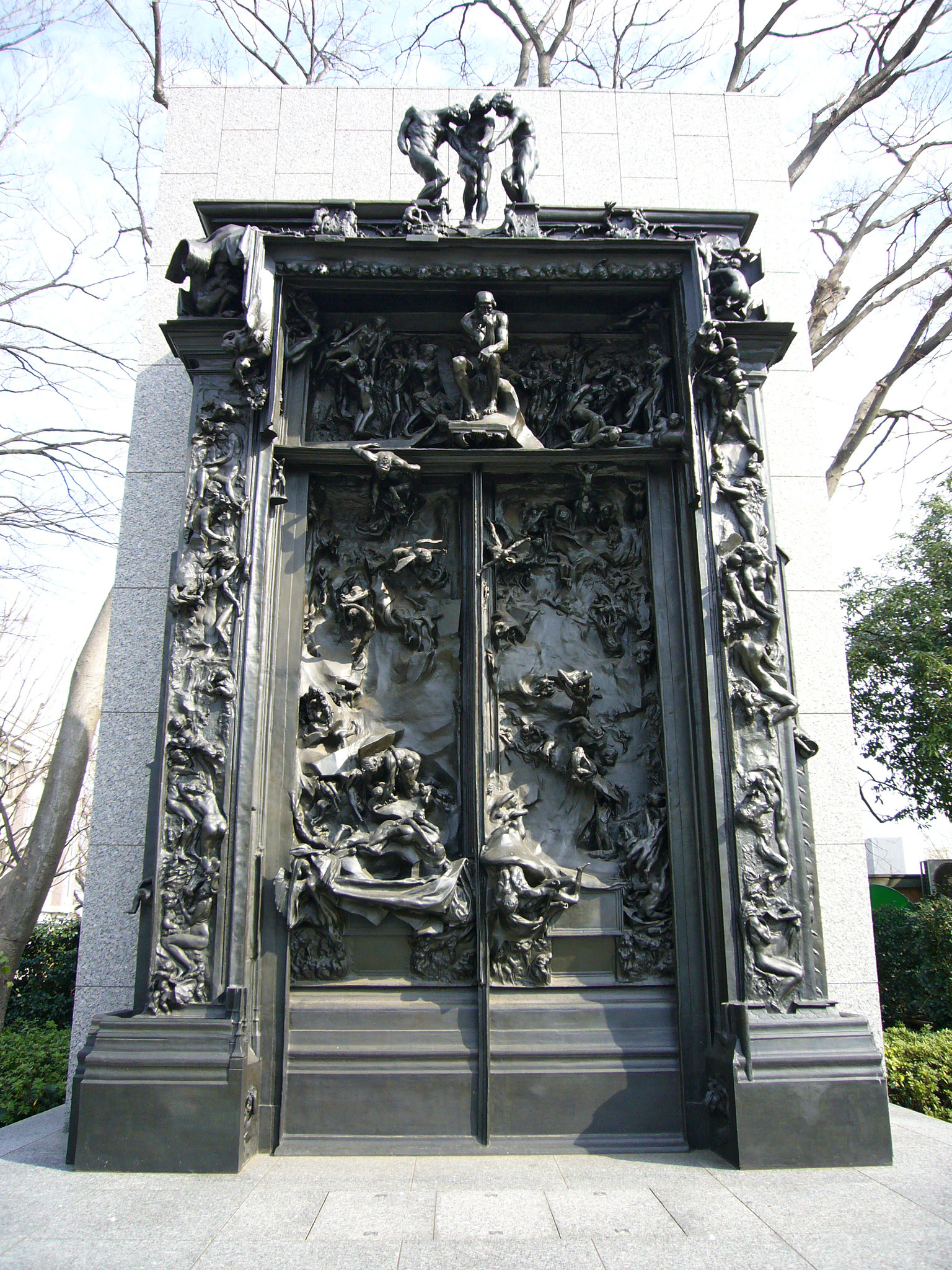 Rodin's "Gates of Hell" in front of the National Museum of Western Art at Ueno, Taito-ku, Tokyo, Japan